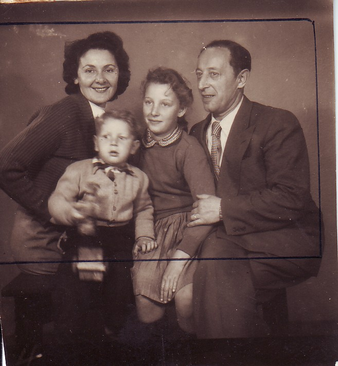 משפחת לזר